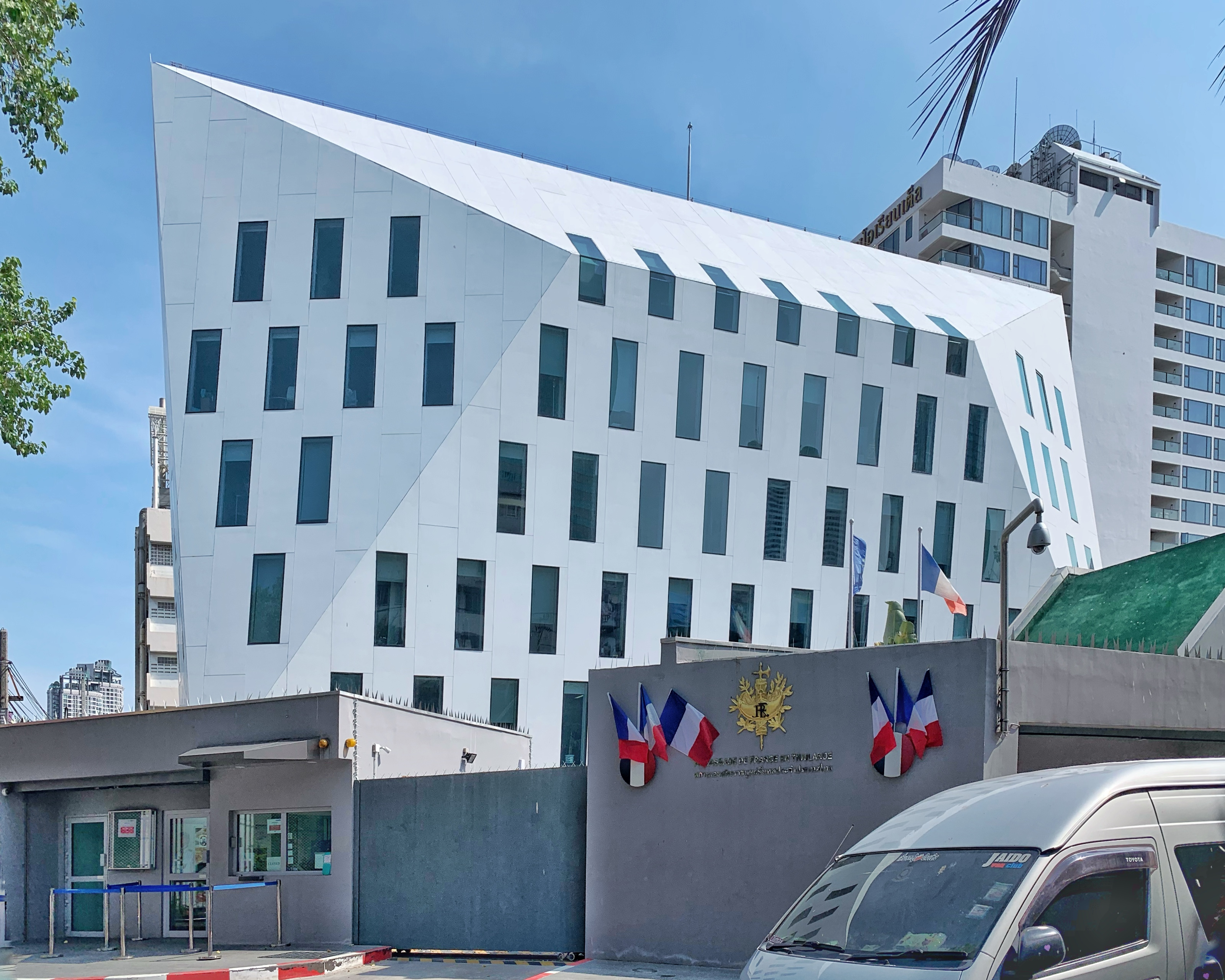 Embassy of France in Thailand, Bangkok